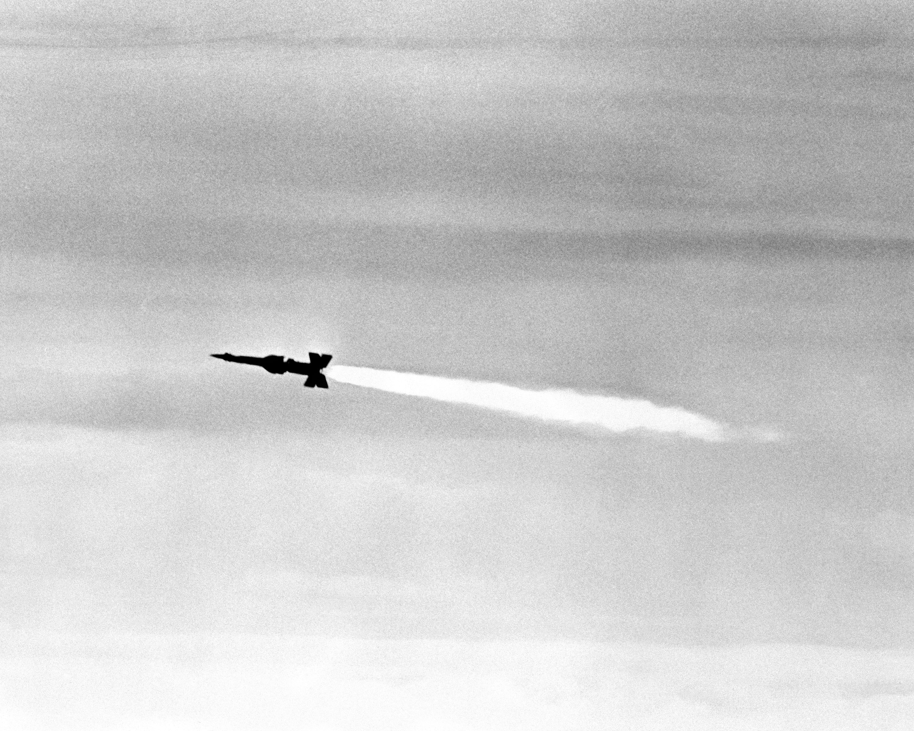 A left side view of a Soviet SA-N-1 missile in fight.